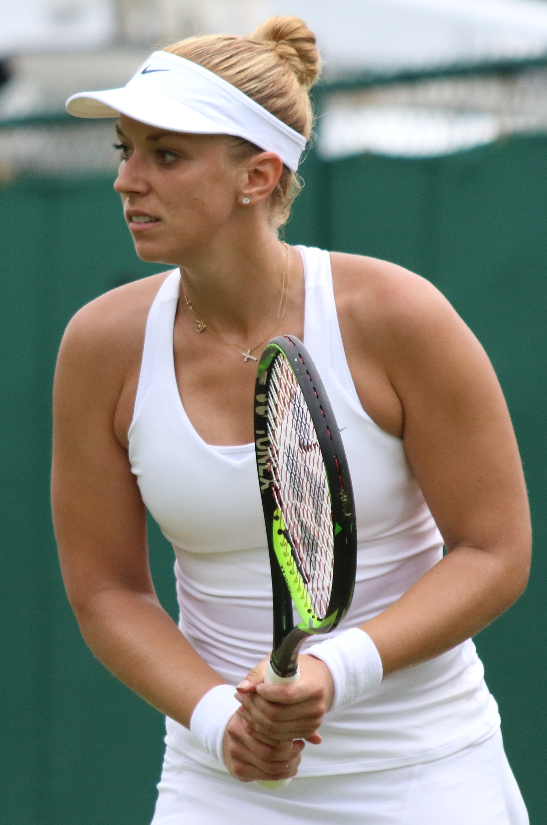 2019 Wimbledon Qualifying Tournament.